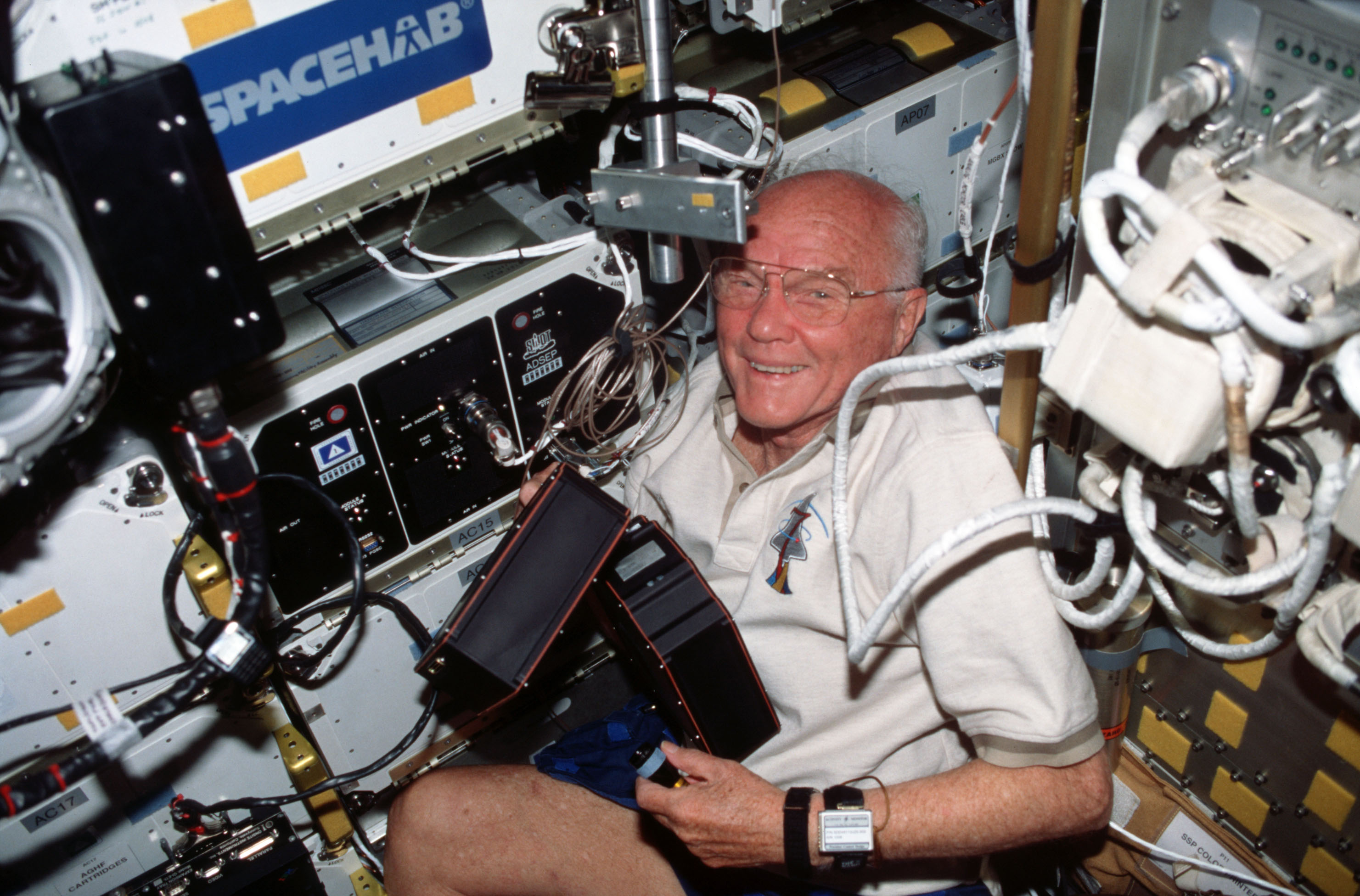 Oct. 1998 -- STS-95 payload specialist John Glenn removes the Advanced Organic Separation (ADSEP) cartridges and moves them to the Spacehab module. Photo credit: NASA NASA image use policy.